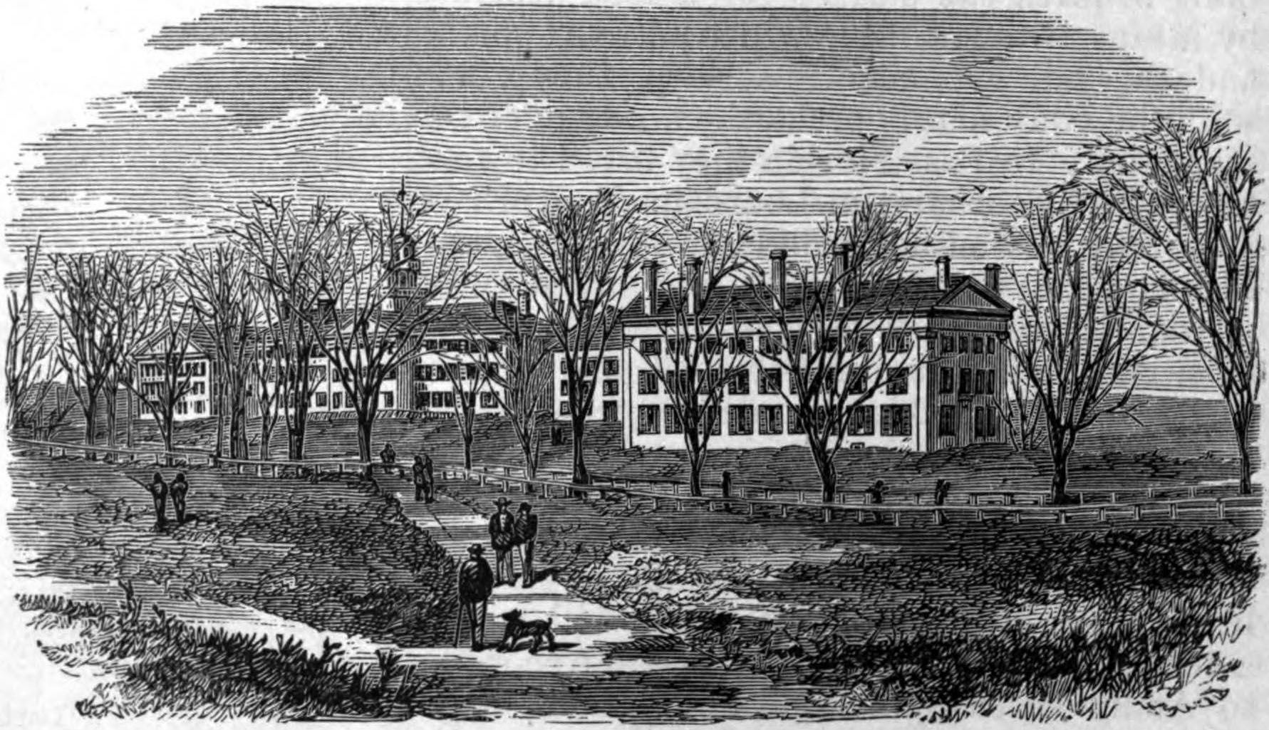 Woodcut view of the Dartmouth College campus.